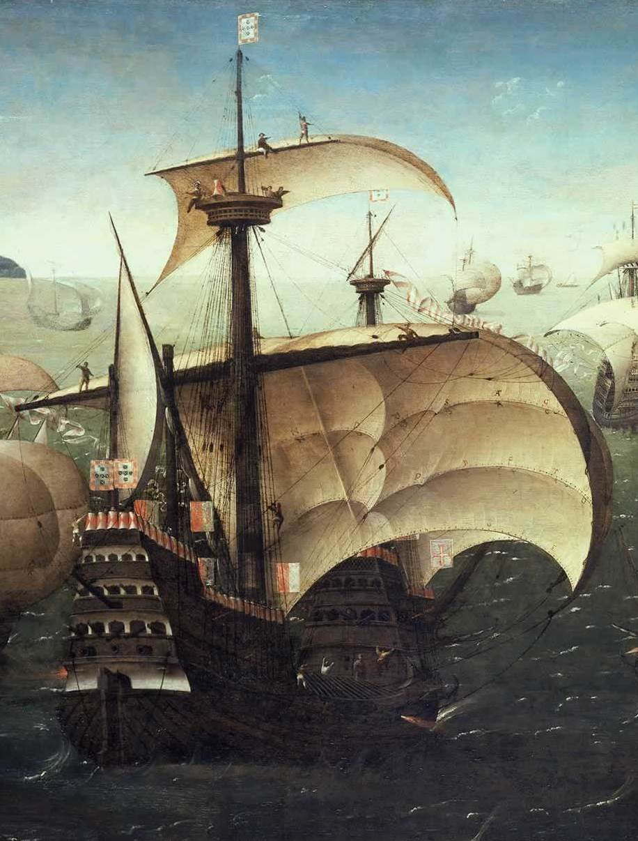 Portuguese carracks off a rocky coast.